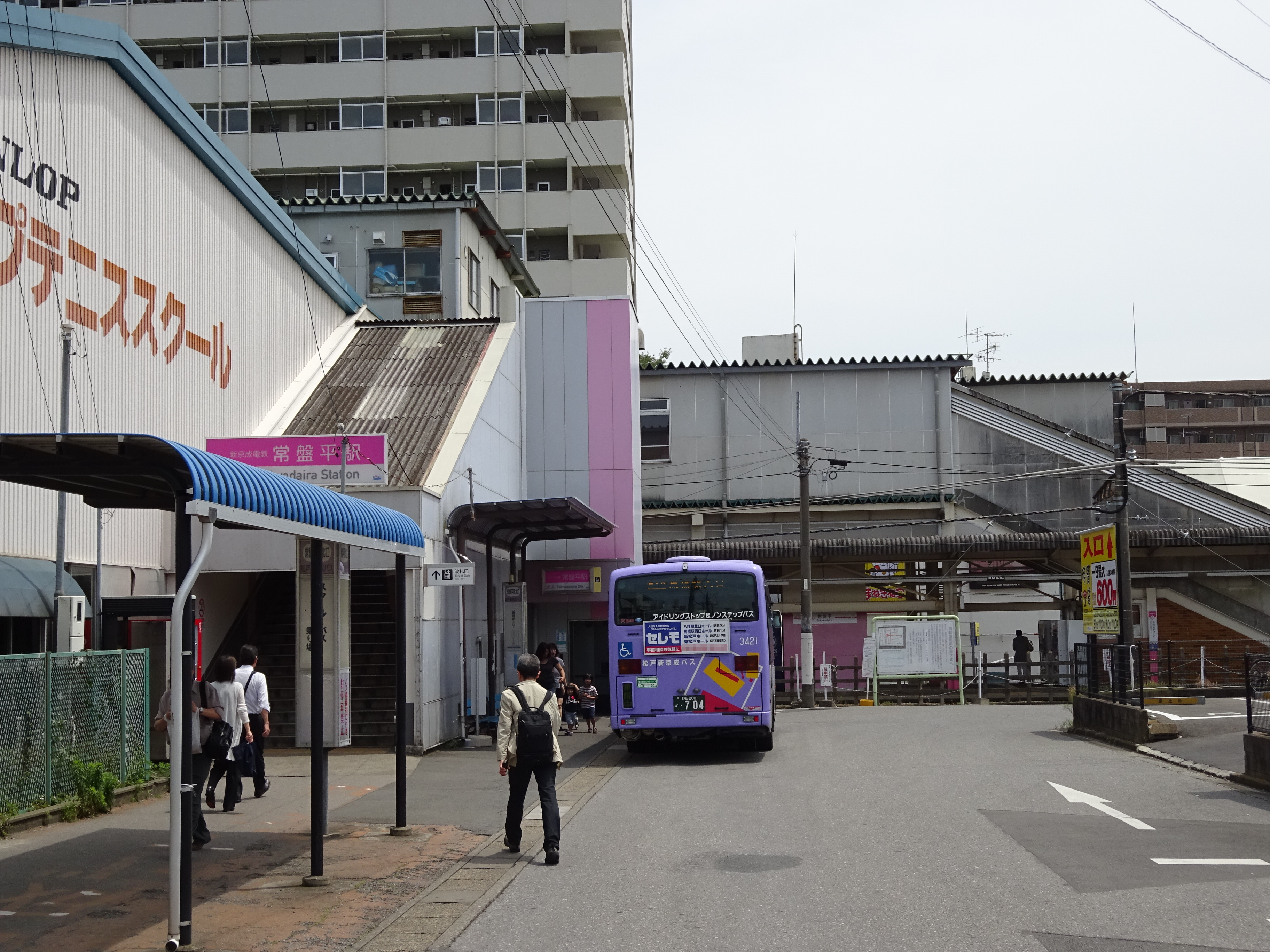 North entrance of Tokiwadaira Station